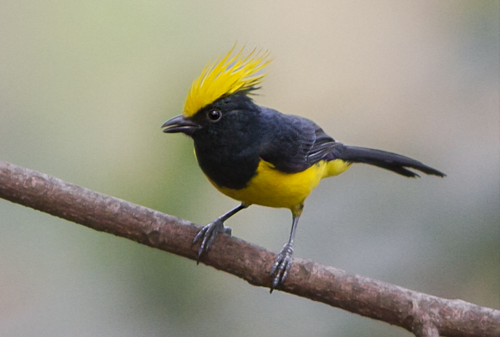 The species Sultan Tit had been photographed during the bird photography tour of GoingWild LLP in Mahananda Wildlife Sanctuary at Darjeeling in that state of West Bengal in India.